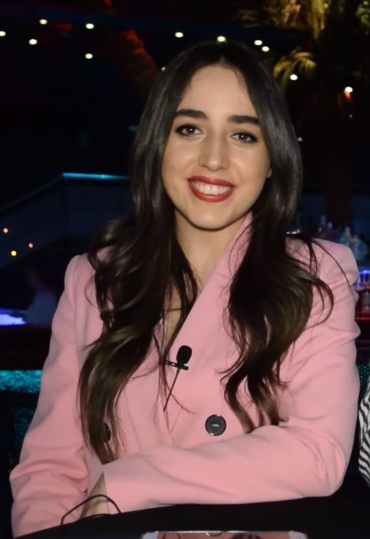 Armenian singer Srbuk in April 2019